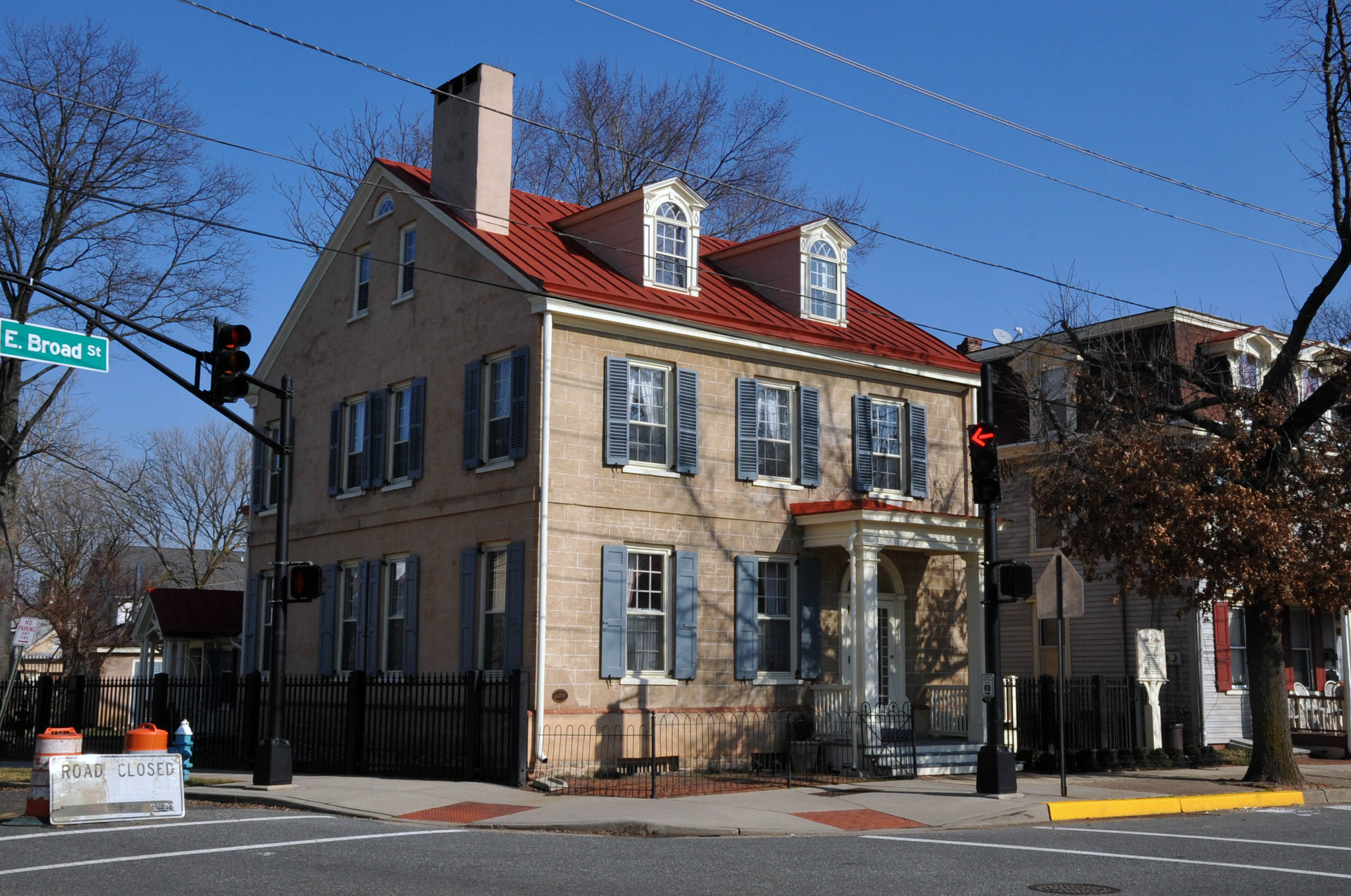 ISAAC COLLINS WAS THE PRINTER OF THE NEW JERSEY GAZETTE WHICH WAS AN INFLUENTIAL VOICE IN PREVOLUTONARY WAR NEW JERSEY. HE ALSO PRINTED THE FIRST PAPER CURRENCY AND THE FIRST AMERICAN FAMILY BIBLE. HOUSE IS NOW ON THE NATIONAL REGISTRY